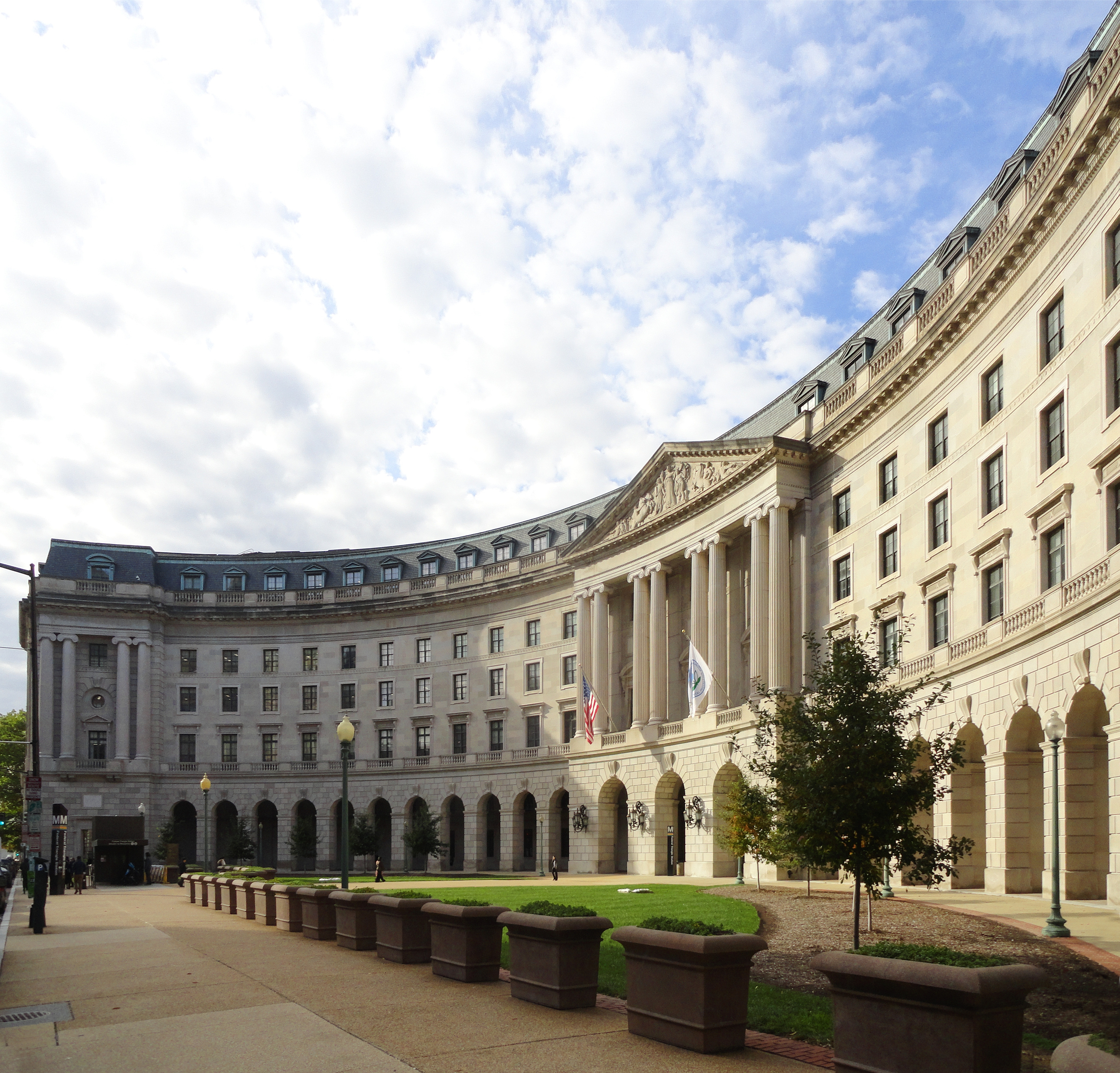 Main entrance of U.S. EPA Headquarters; the William Jefferson Clinton Federal Building on 12th Street, N.W., Washington, D.C. The pylon and elevator entrance for the Federal Triangle Metro station is seen on the left.